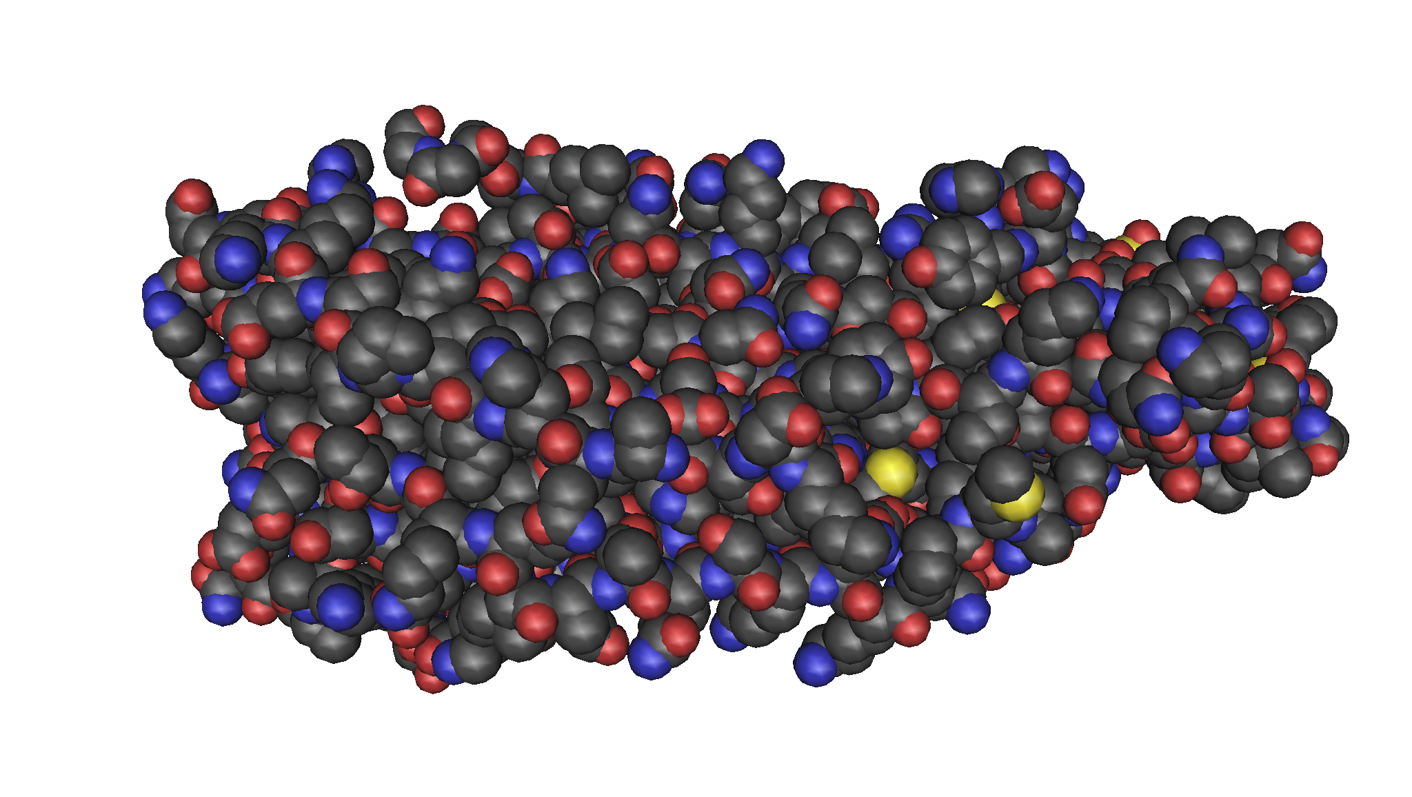 Structure Of The Panton-Valentine Leucocidin F Component From Staphylococcus Aureus